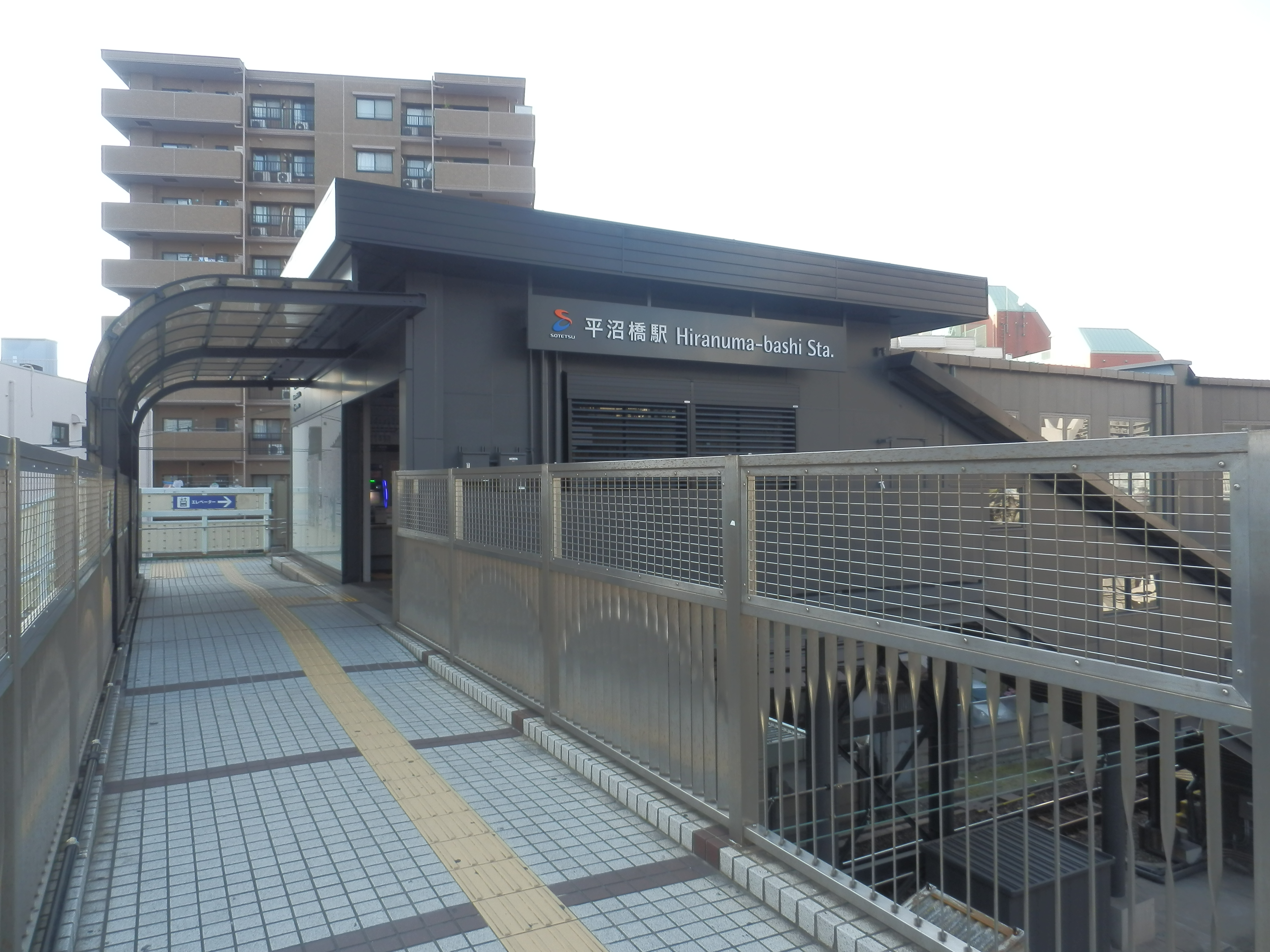 Hiranumabashi Station following refurbishment